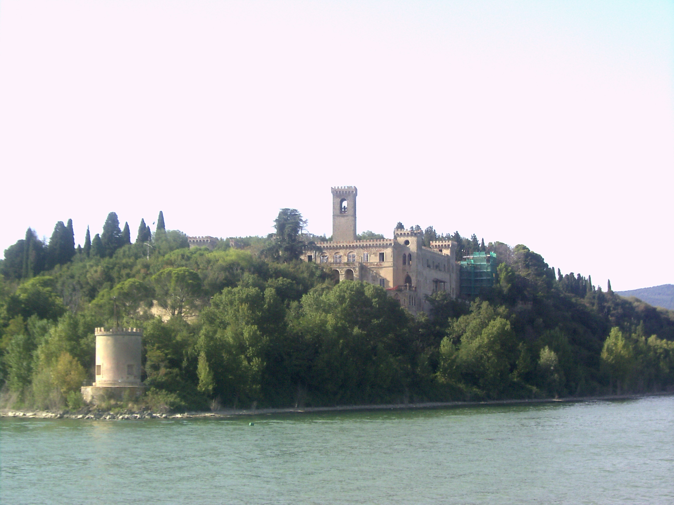 Guglielmi castle, still in ruins after the start of restoring works. It was, between XIX and XX century, built near an ancient church, and was one of the cultural center of the zone, with marvellous internals, richs rooms, gardens and an outstanding wiev all around. Sadly, it was leaved for decads without manutention, so in 1998 it was in bad shape, and since 1999 is closed to the public. Now someone is restoring it, but works are costly and apparently stopped.